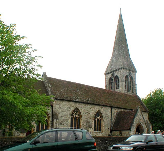 Holy Trinity, Bengeo, Herts